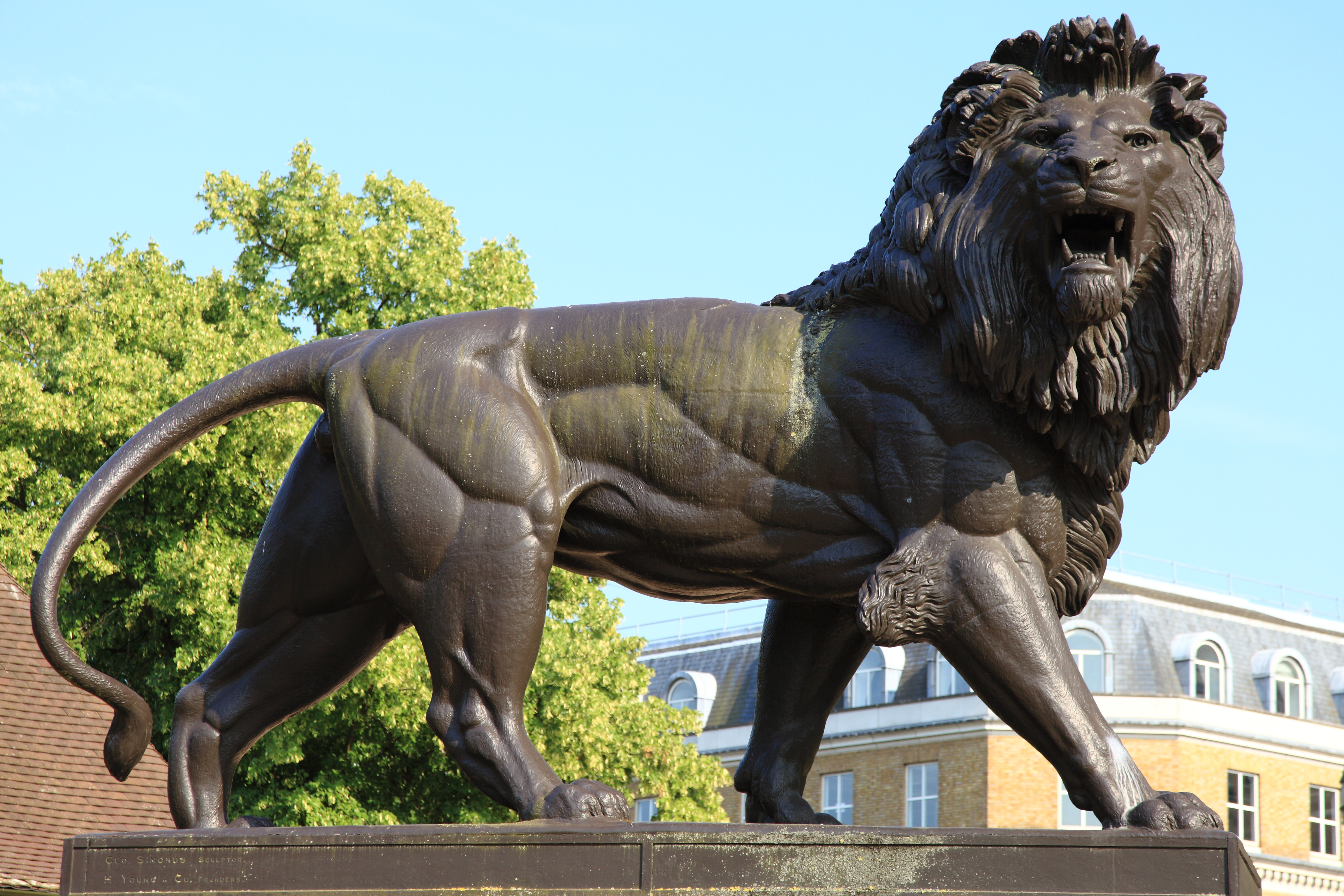 The Maiwand Lion, Forbury Gardens, Reading, UK